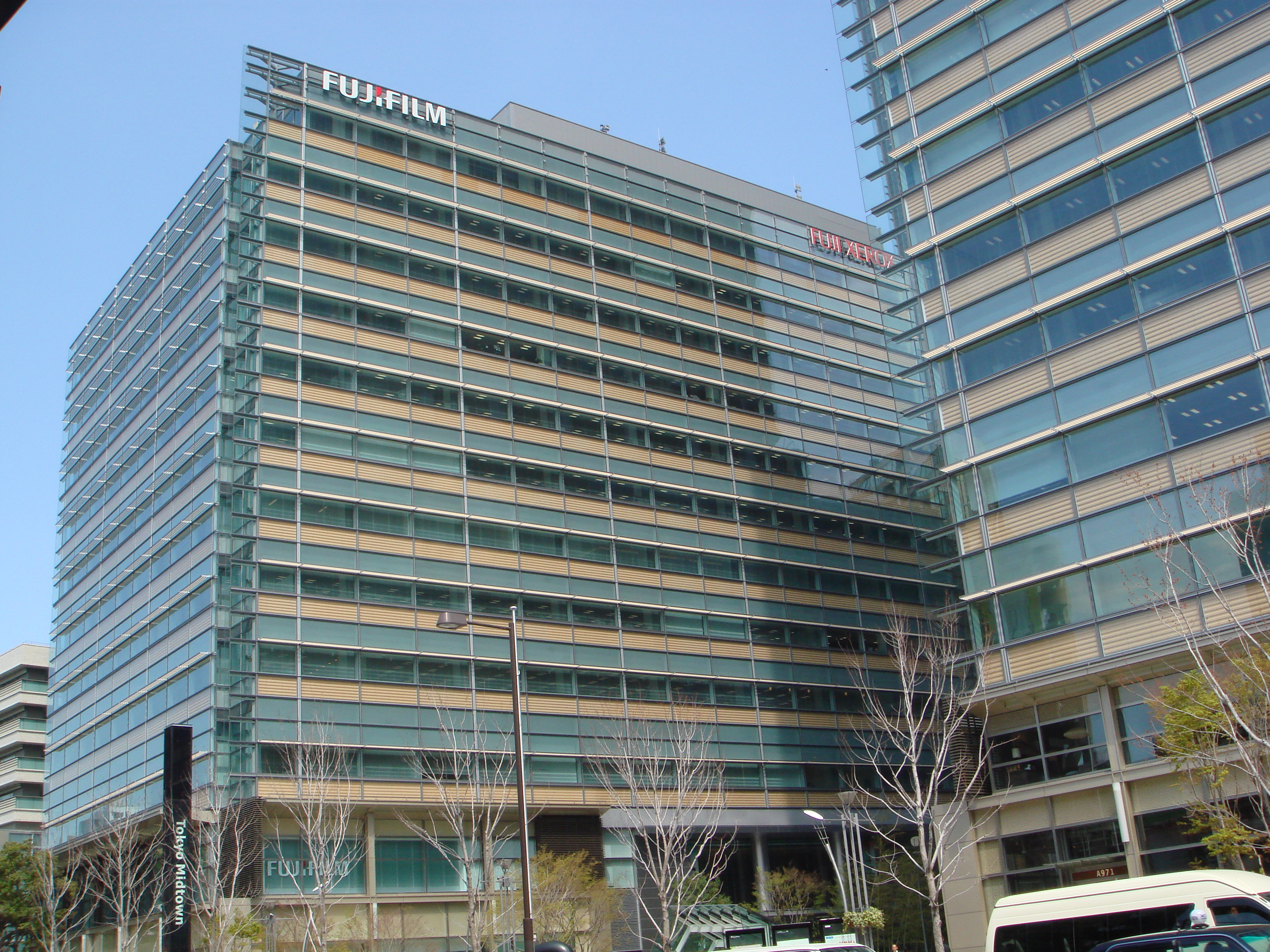 Tokyo Midtown West building overview.